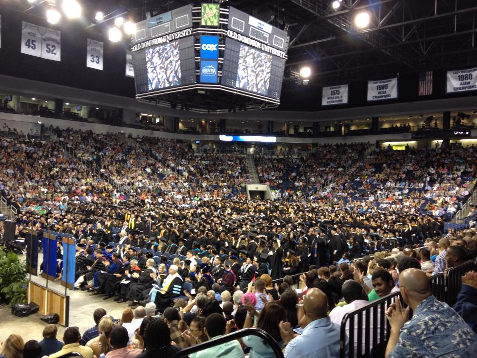 2013 Old Dominion Graduation